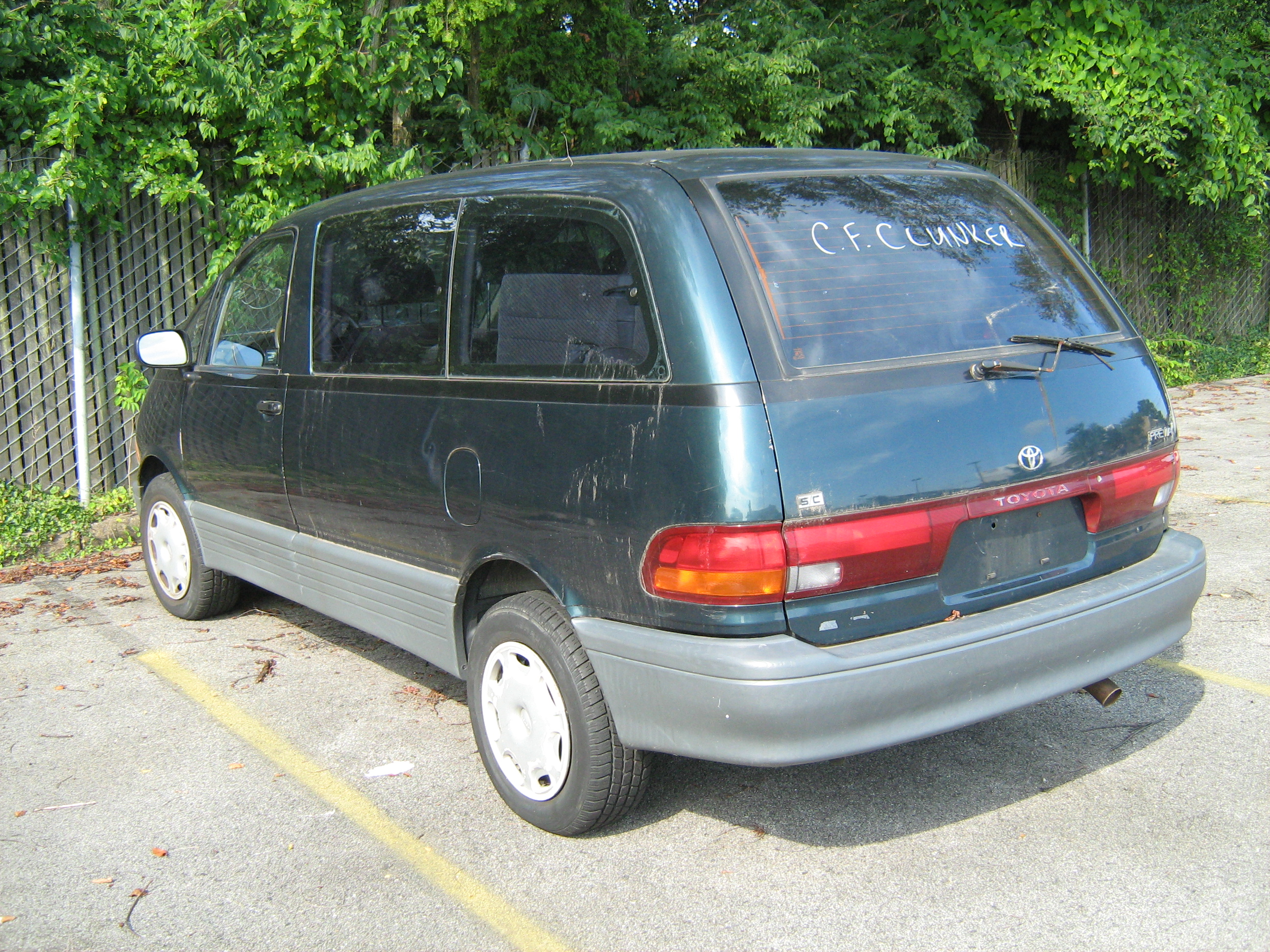 U.S. federal scrappage program Car Allowance Rebate System (better known as "Cash for Clunkers" CFC) - a disabled (motor oil was drained, replaced with a solution, and the engine run causing its internals to abrade and seize) Toyota Previa on "death row" - note the writing on the back window.